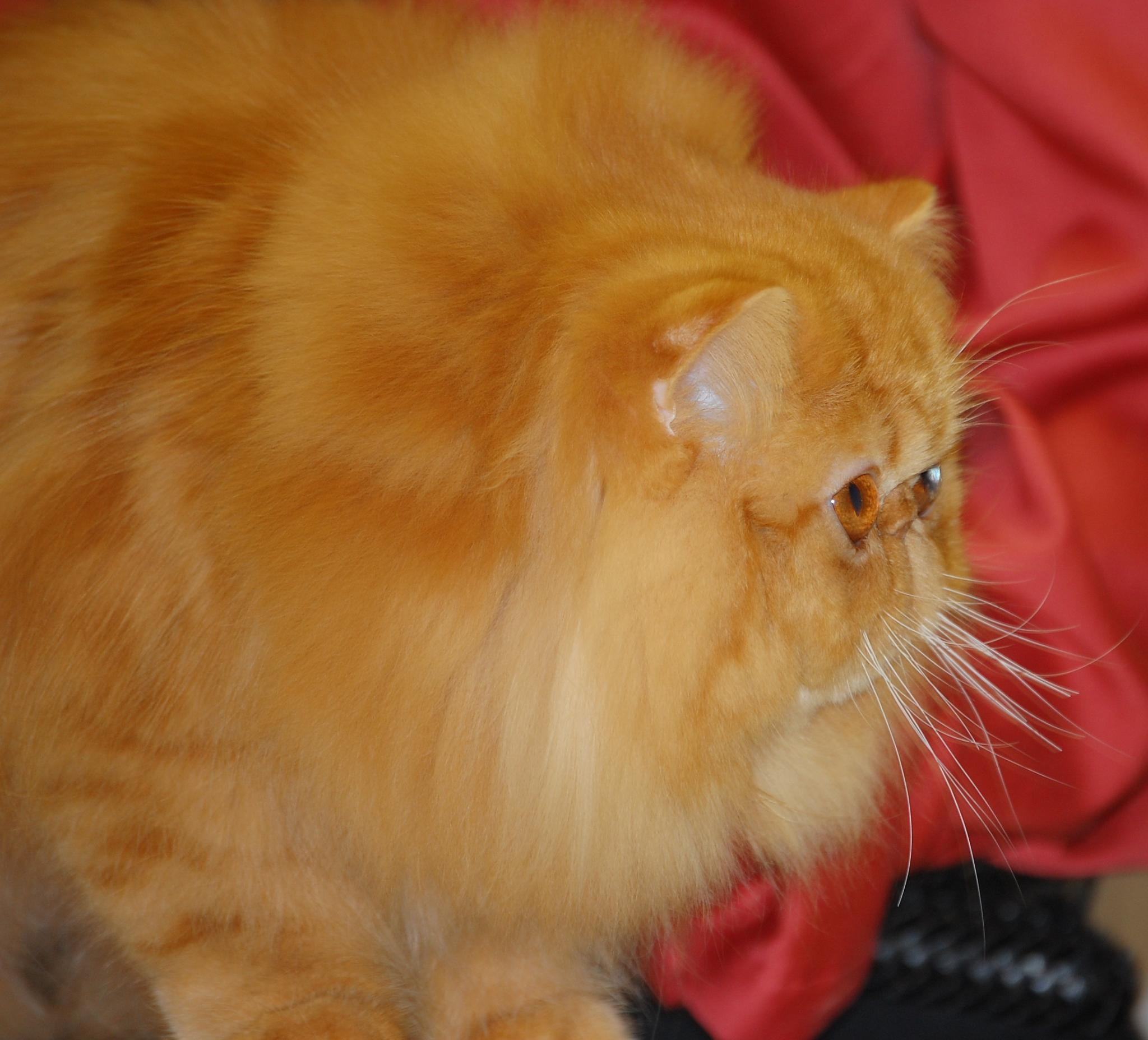 Cat Cat Show - Ft. Lauderdale - October 2008 Cat Show - Ft. Lauderdale - October 2008